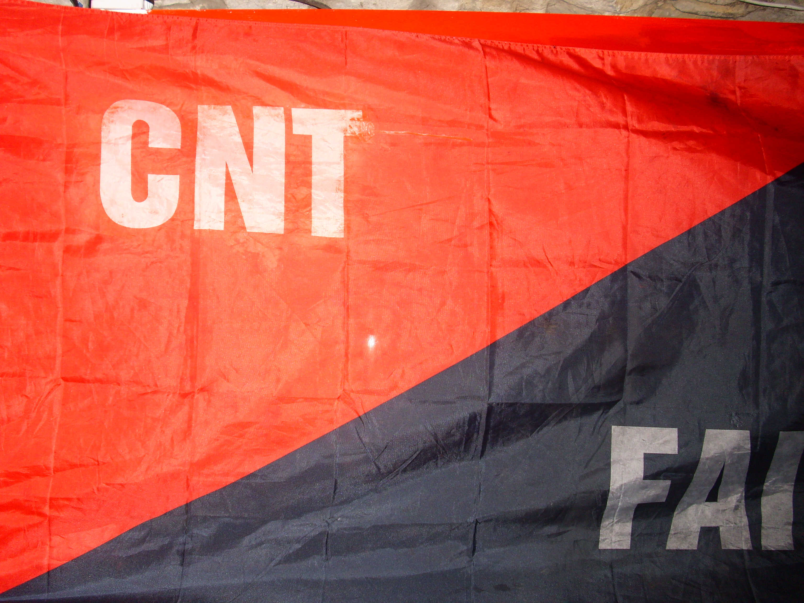 CNT flag, an anarcho-syndicalist labour union of Spain